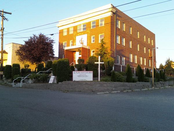 Bulit in 1919, former Masonic Temple in Alderwood Manor now a Church in Lynnwood, Washington. It is now the Vietnamese Alliance Church of Lynnwood, located at 19425 36th Ave W., Lynnwood, WA 98036.